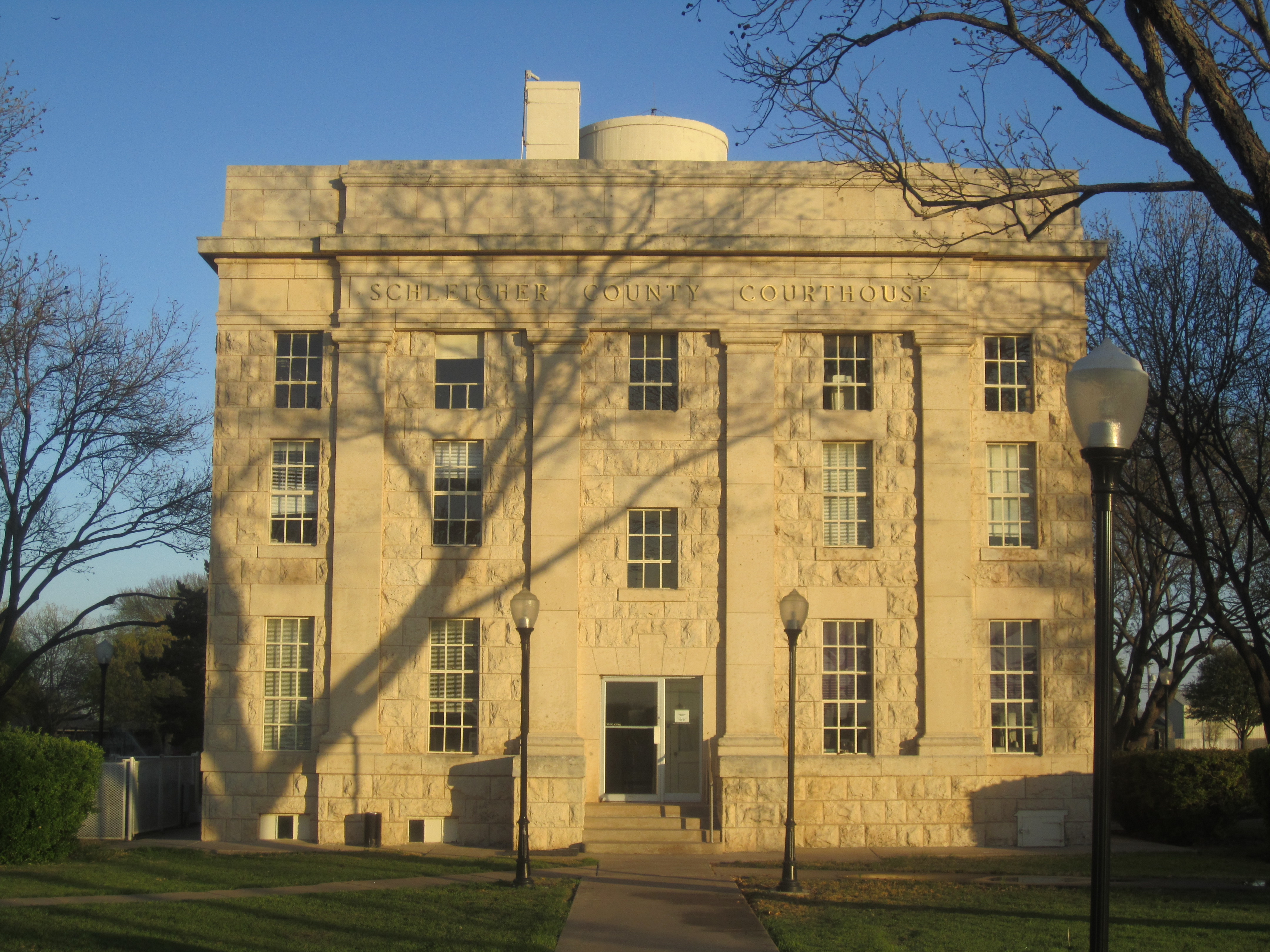 I took photo with Canon camera in Eldorado, TX. Recorded Texas Historic Landmark - 1964